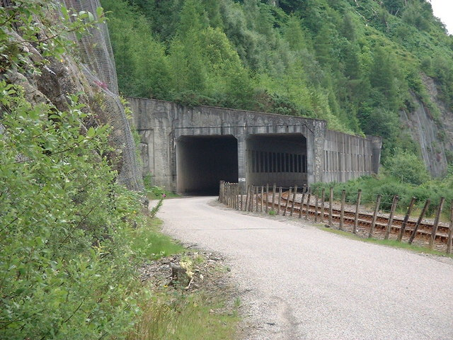 the avalanche shelters on Lochcarron to Kyle of Lochalsh road.